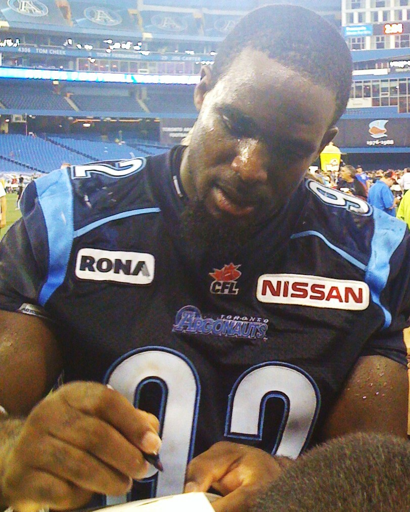 Canadian football player Claude Harriott of the Toronto Argonauts